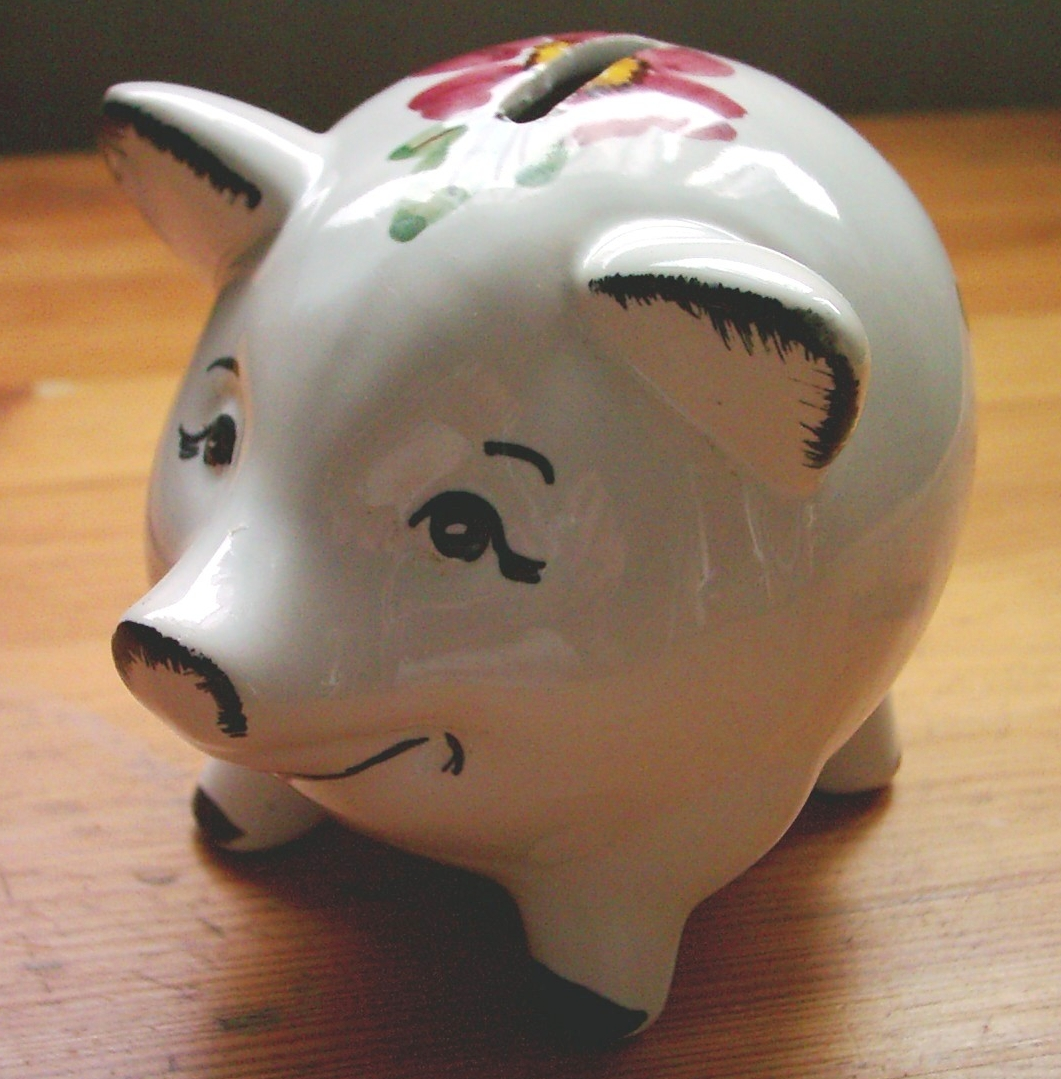 Piggy bank from German bank HASPA, around 1970.